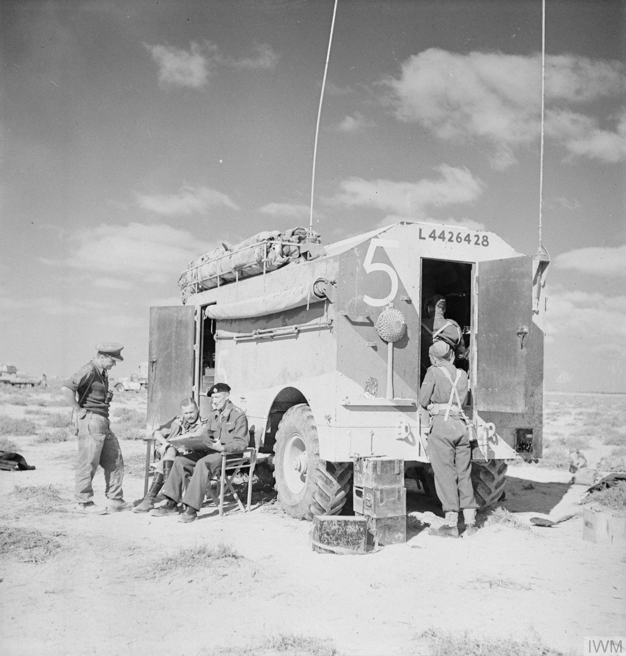 THE BRITISH ARMY IN NORTH AFRICA 1941; AEC Dorchester armoured command vehicle and staff.